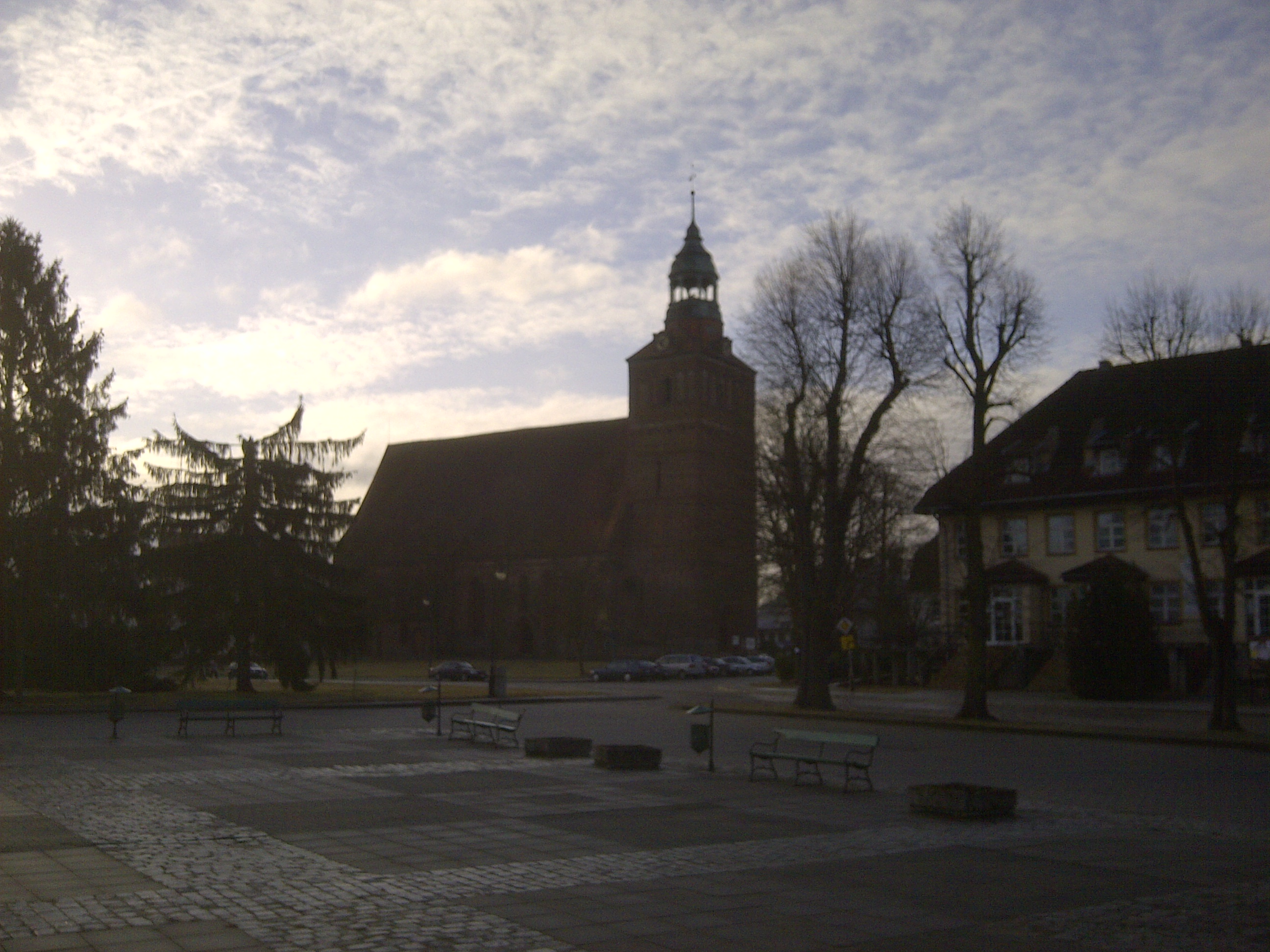 The central square and church of Osno Lubuskie